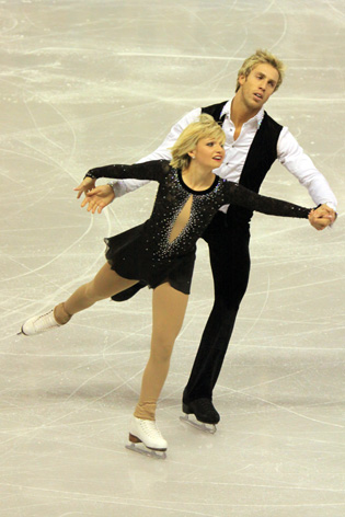 Kirsten Moore-Towers and Dylan Moscovitch at the 2009 Skate Canada International.